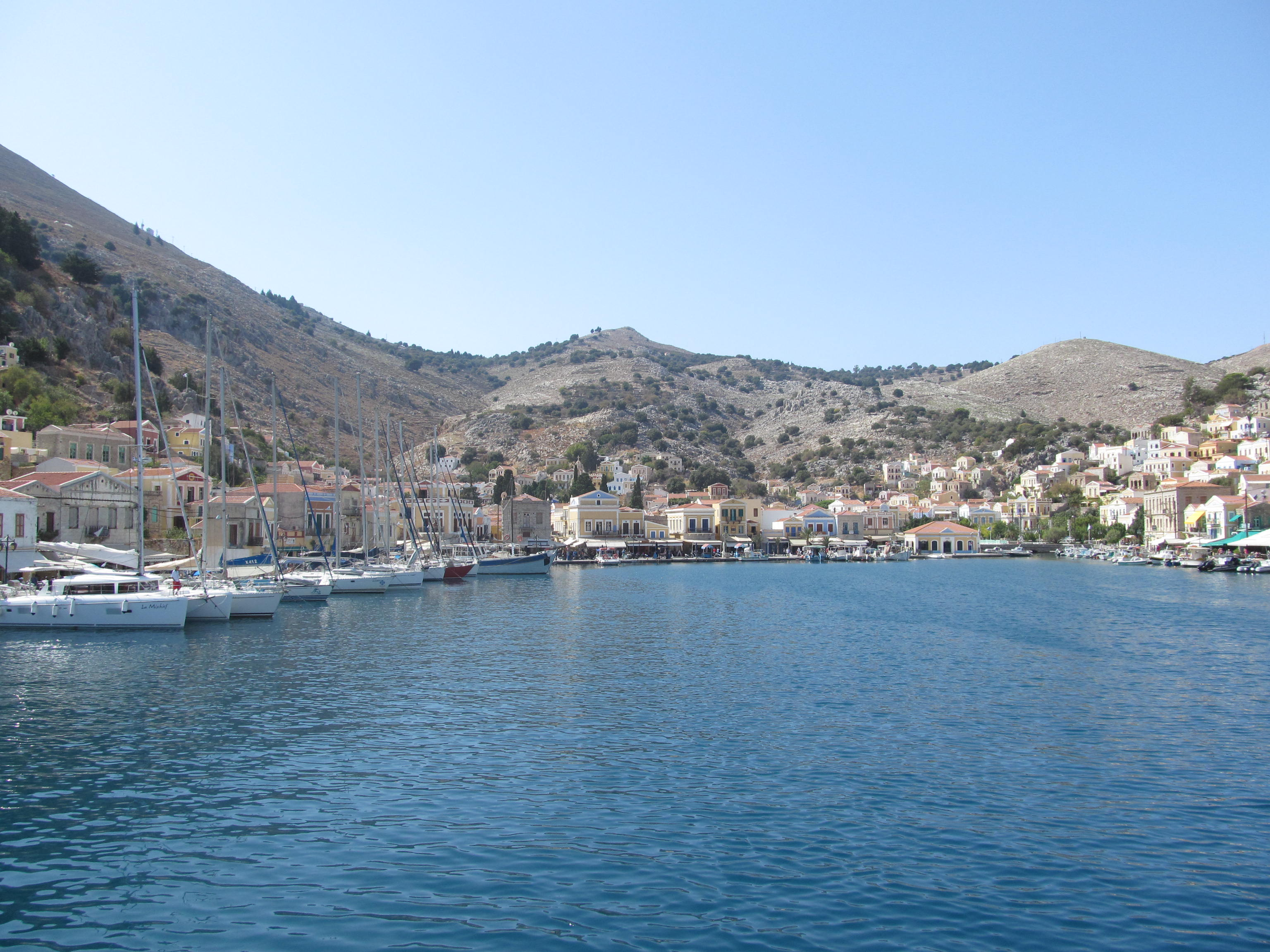 Port of Symi